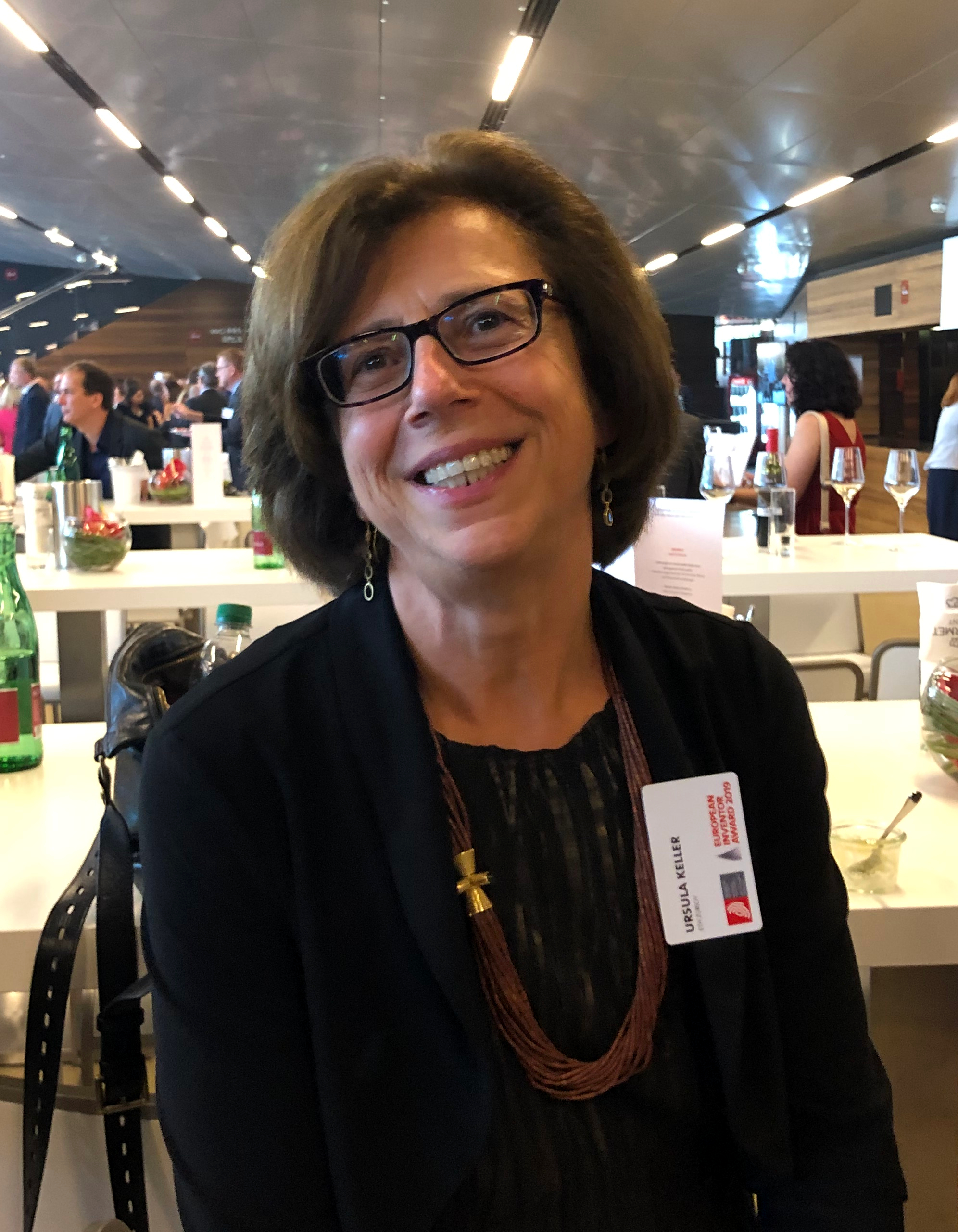 Winner of the European Inventor Award 2018 in the Lifetime achievement category.